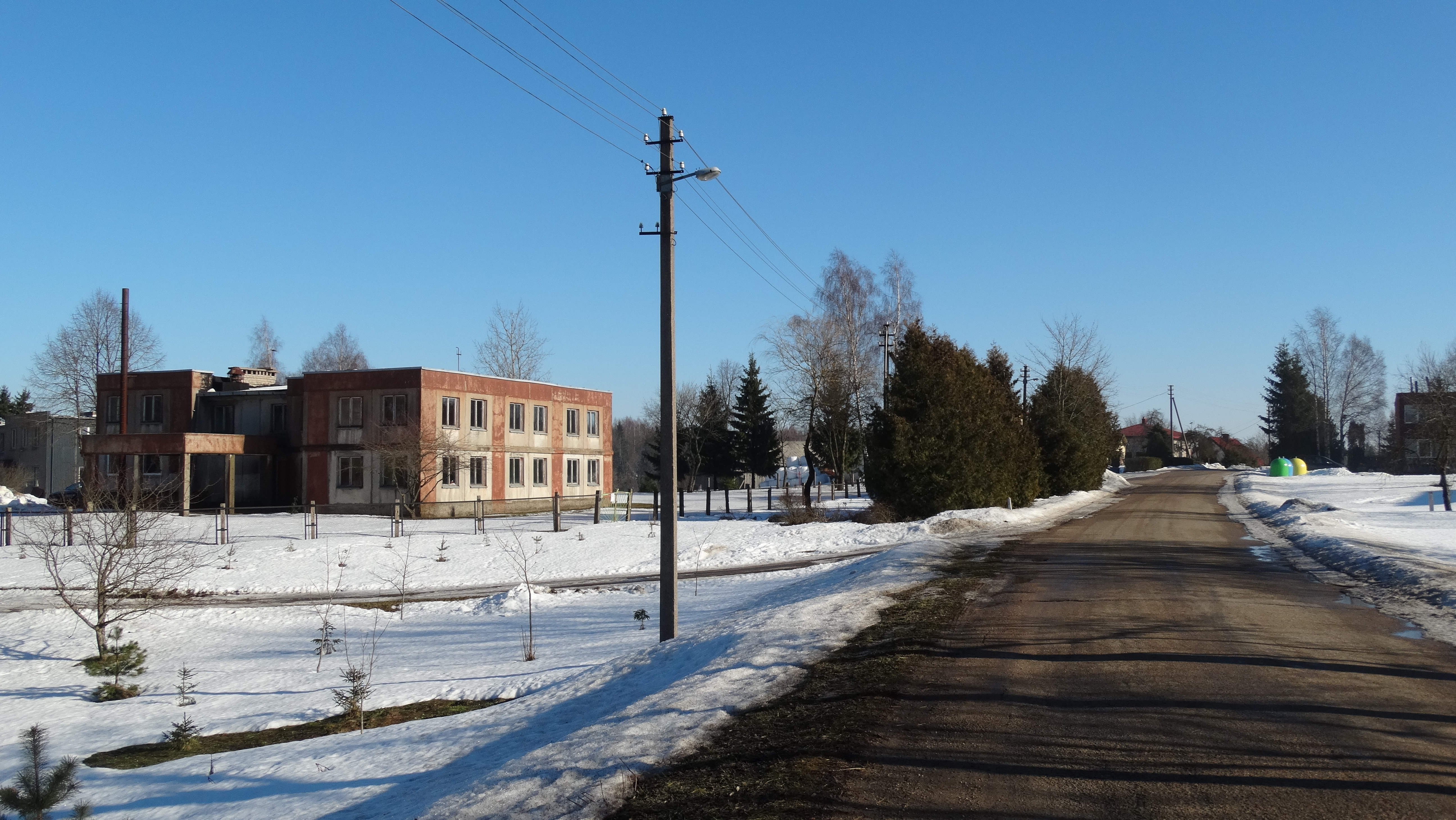 Šiauduva, Šilalė district, Lithuania